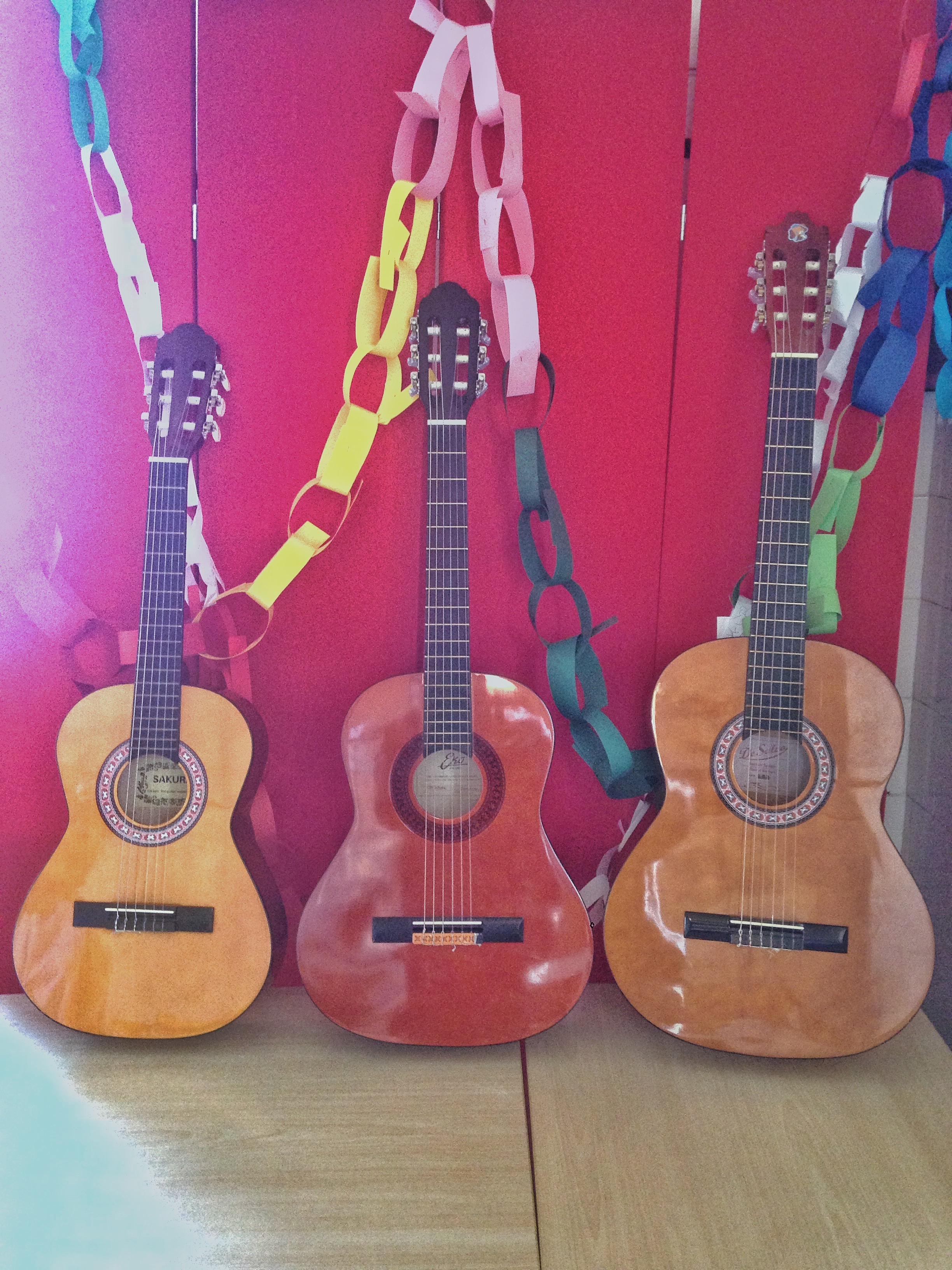 Chitarre